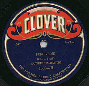 Clover Records label, 1920s 78